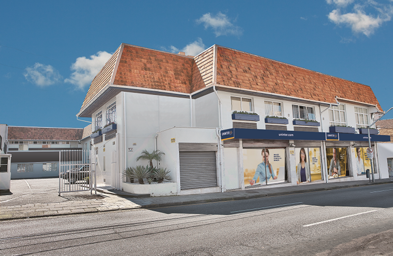 Uninter - Campus 13 de Maio IBPEX